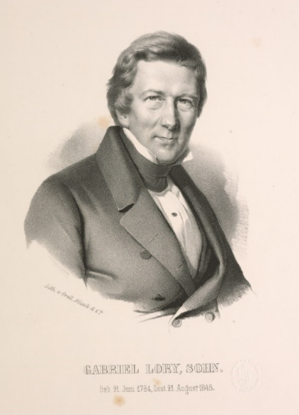 Swiss artist Gabriel Lory the Younger